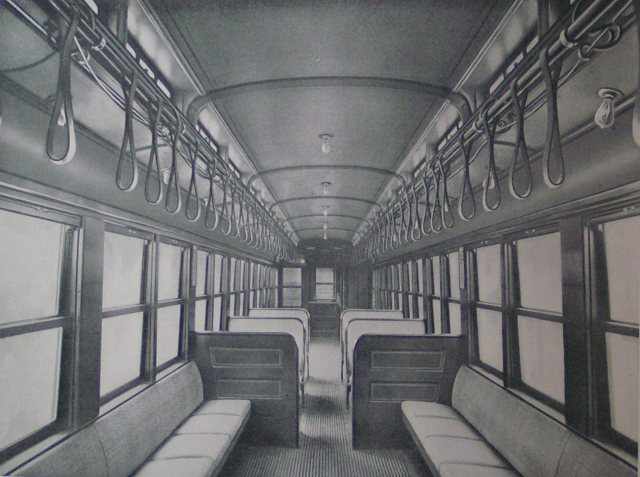 Drawing of the interior of a Composite IRT subway car